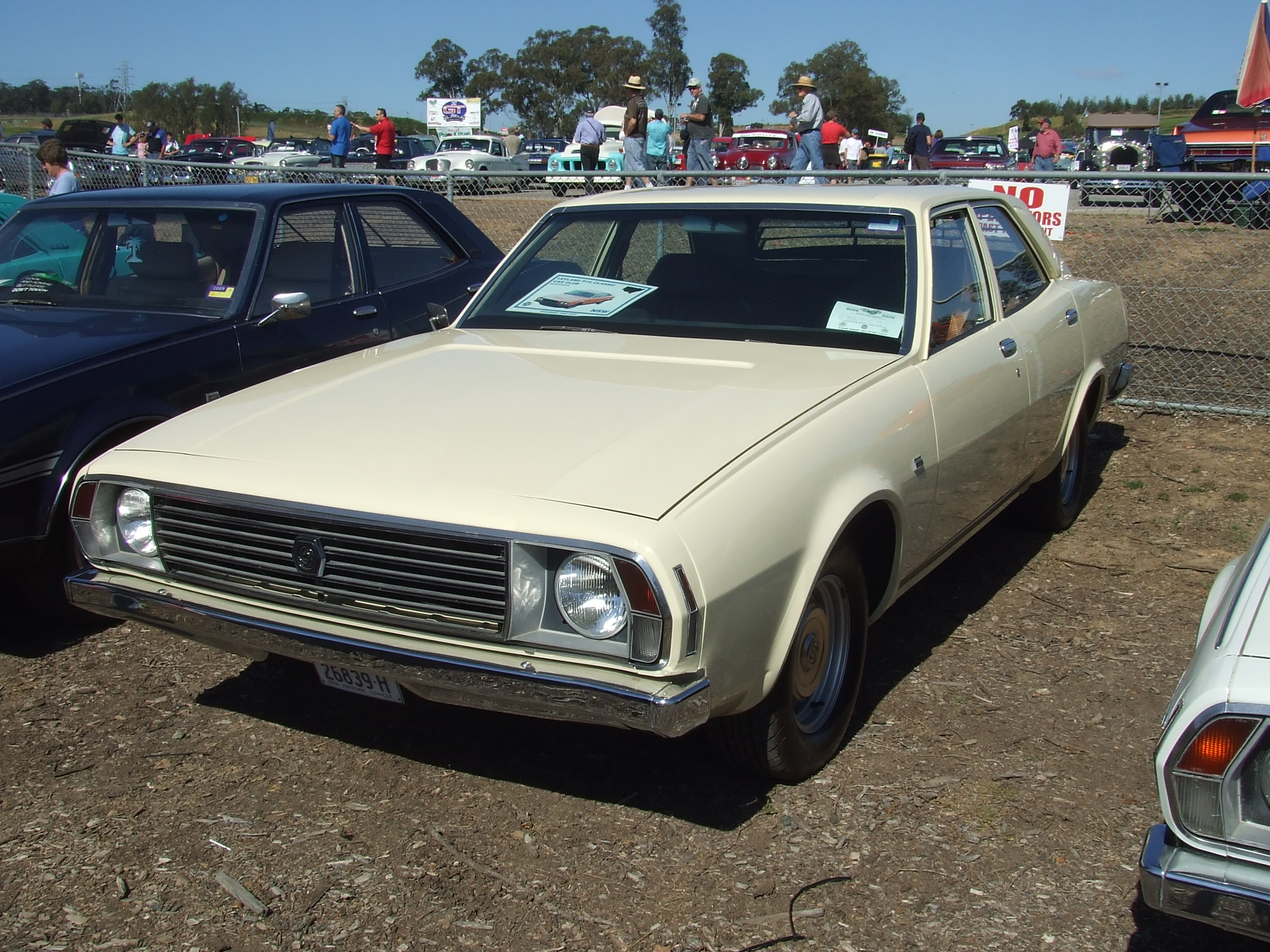 Leyland P76